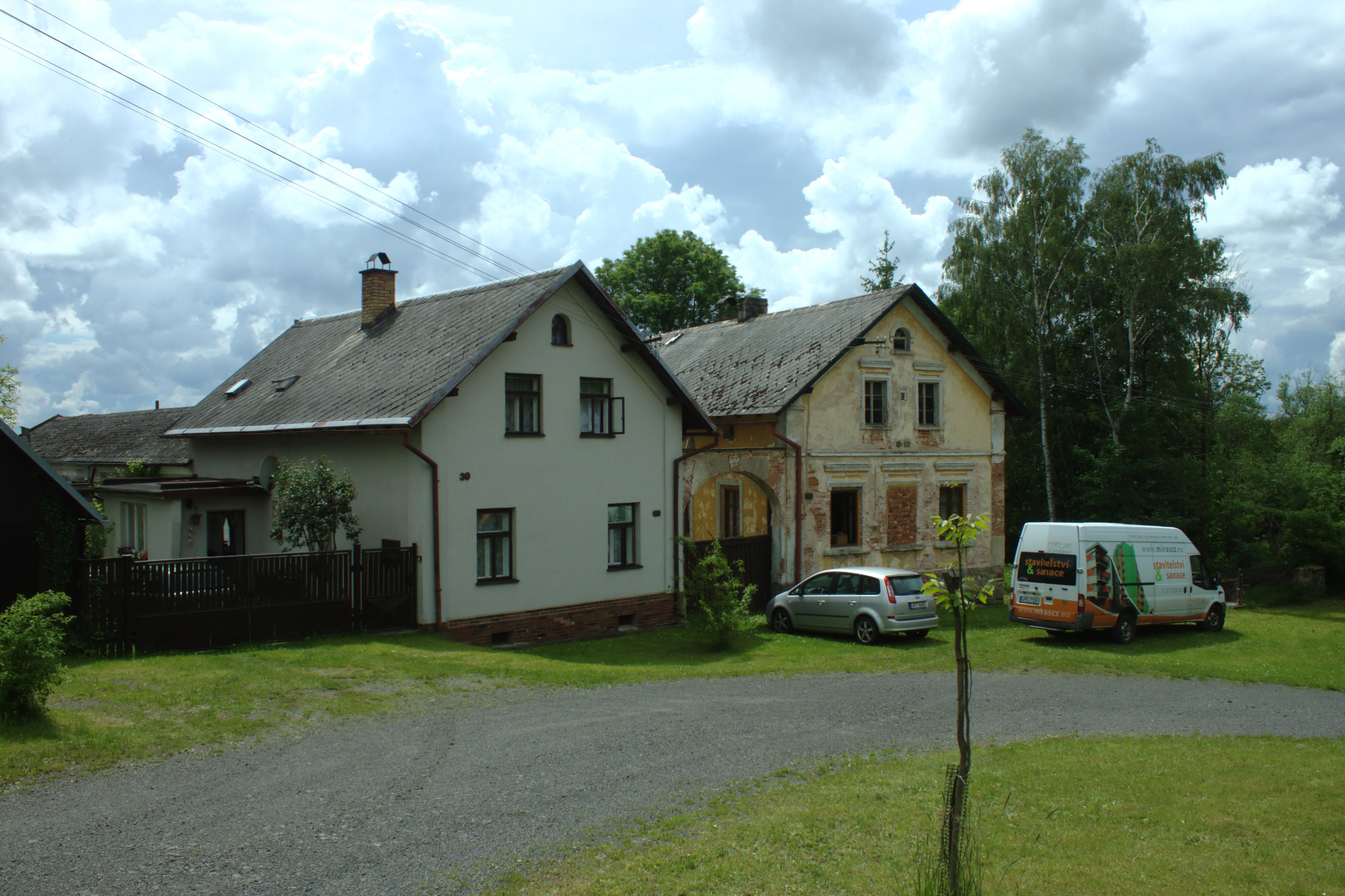 Two buildings at the main common in Zhořec, Karlovy Vary Region, CZ